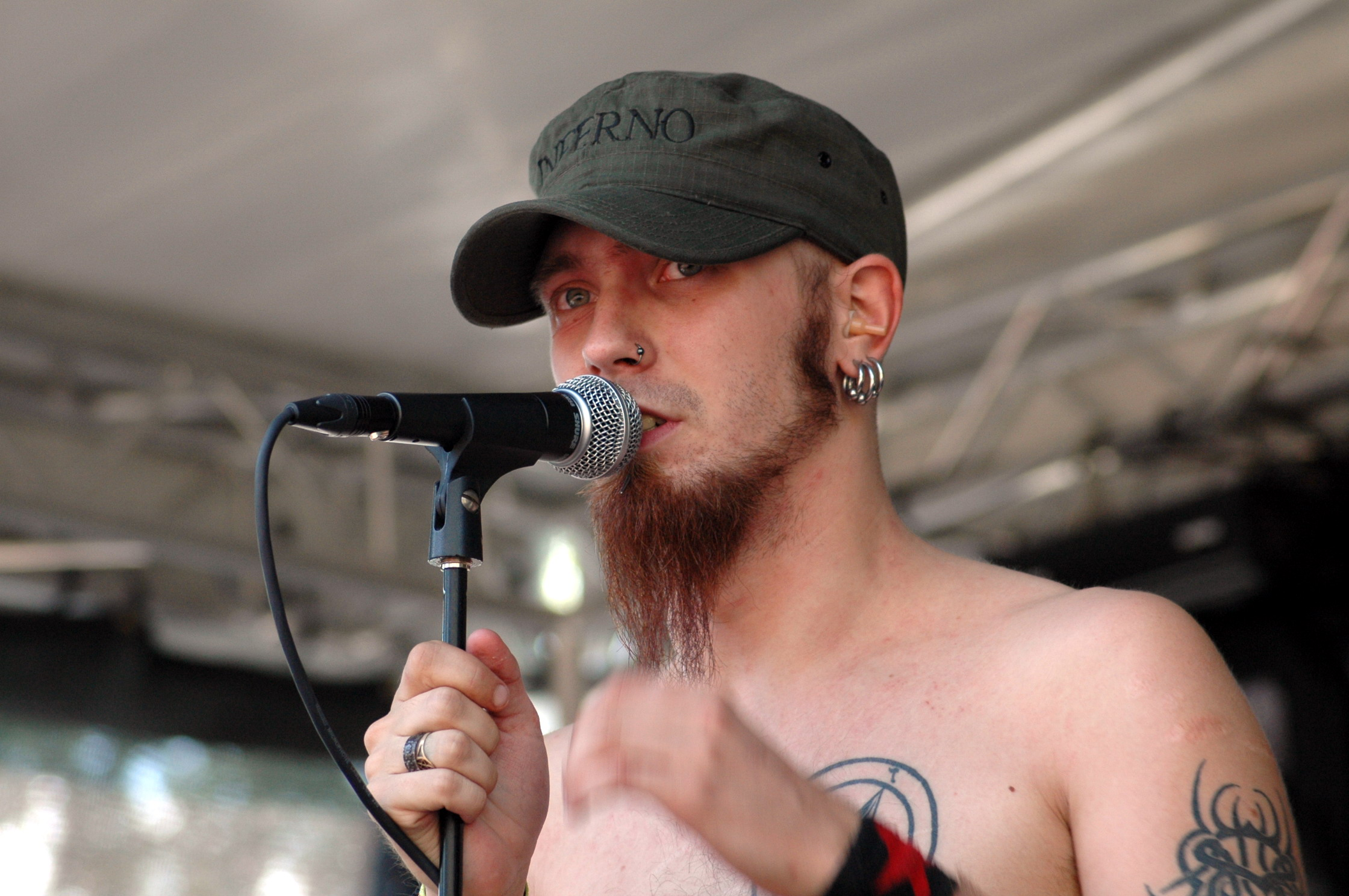 Mikko Kotamäki from Swallow the Sun, 2006